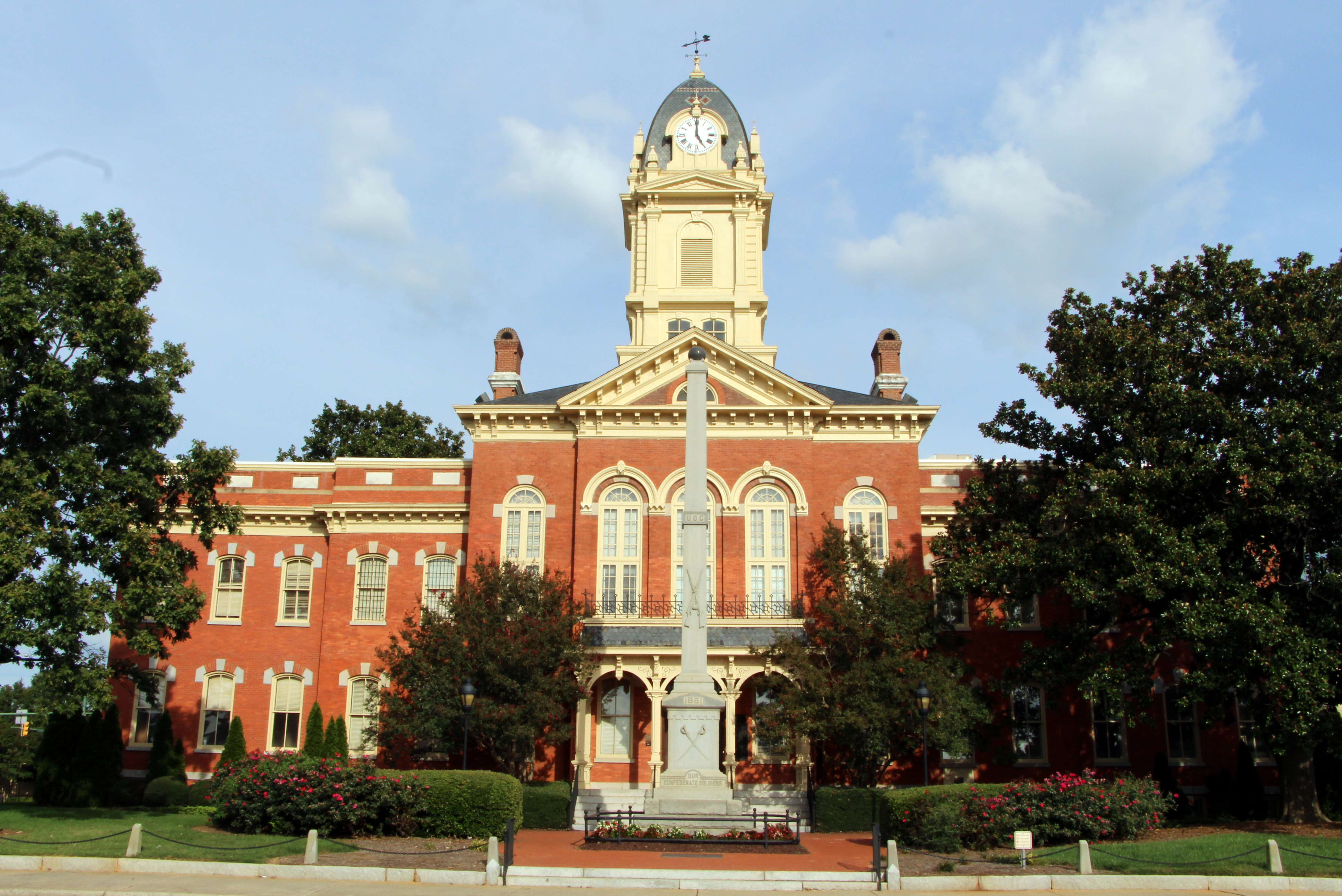 It is located in the Monroe Downtown Historic District. 400 North Main Street. Monroe, NC 28112 It was listed on the National Register of Historic Places in 1971